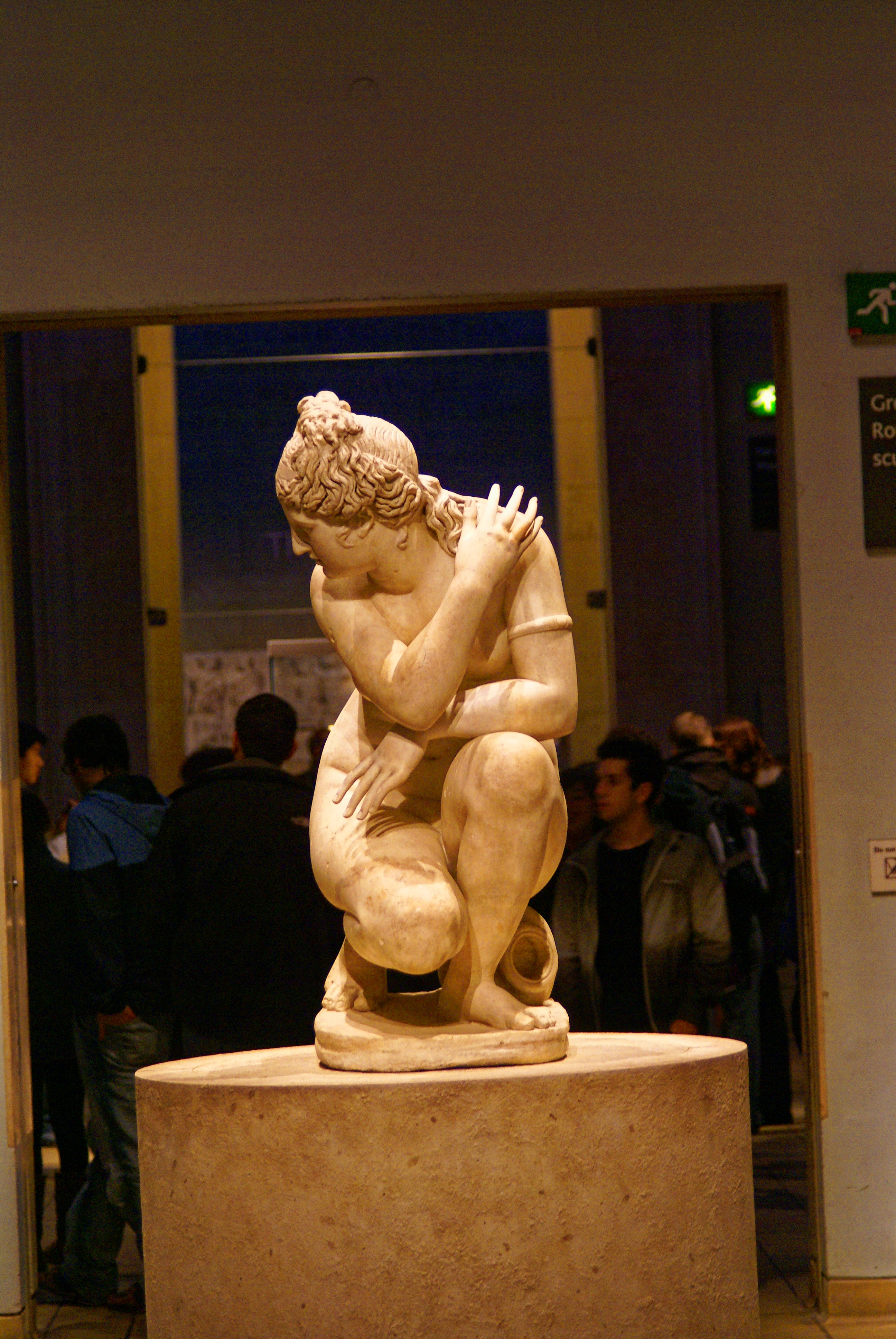 London - British Museum